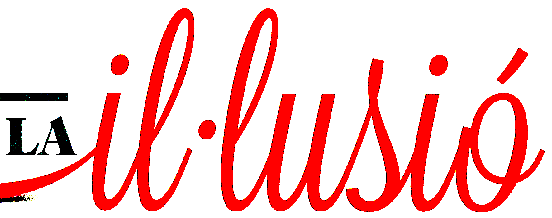 Billboard in Barcelona (detail), showing the Catalan word "il·lusió" ("dream" in the context of the billboard text) which is written using an interpunct